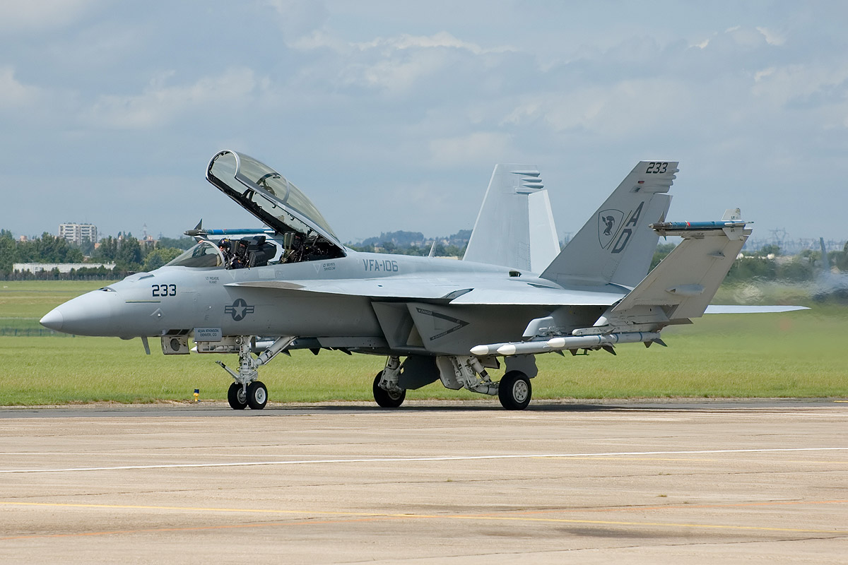 F/A-18F Super Hornet at Paris Air Show 2007